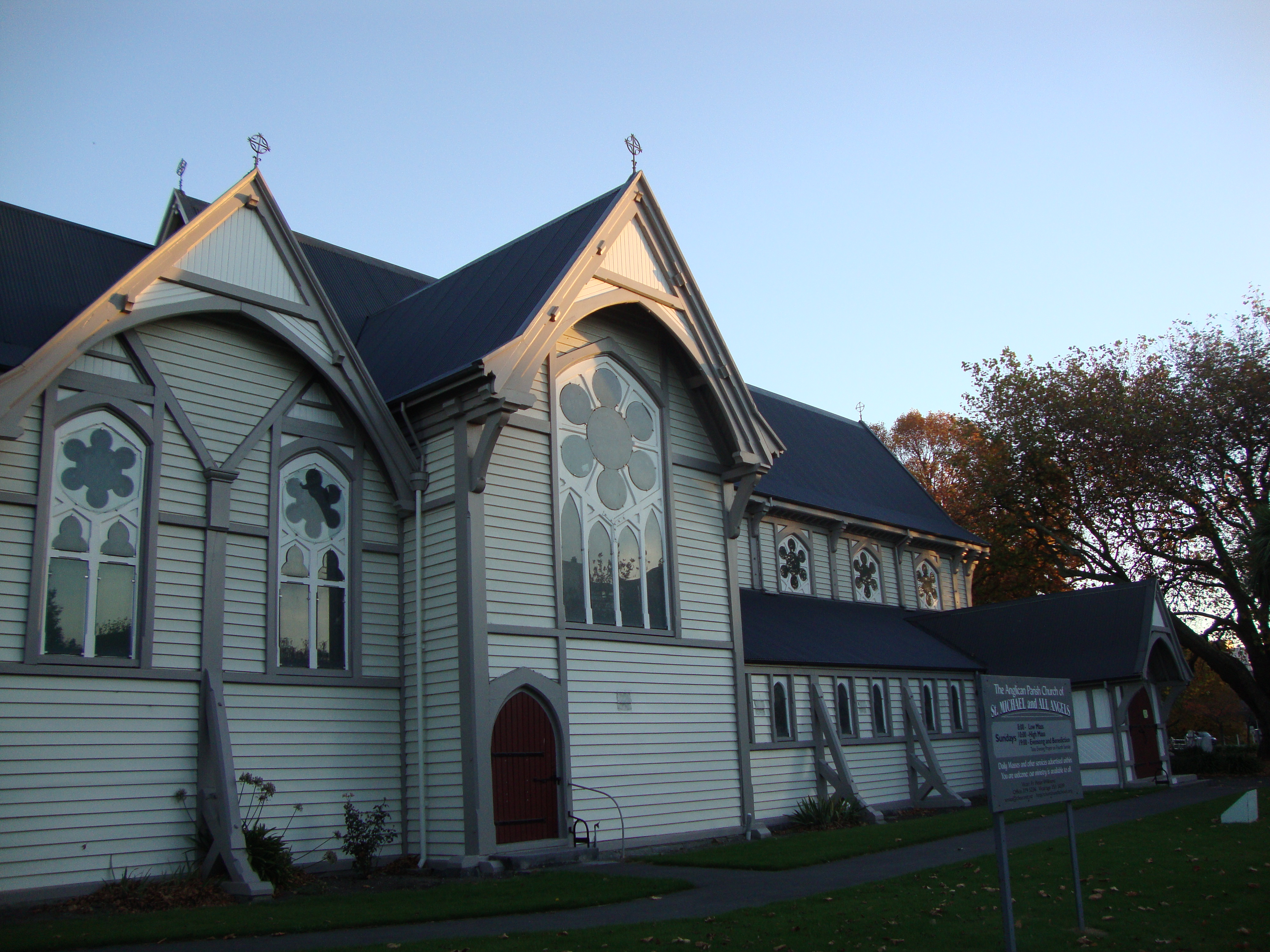 Church of St Michael and All Angels, Christchurch (north frontage)